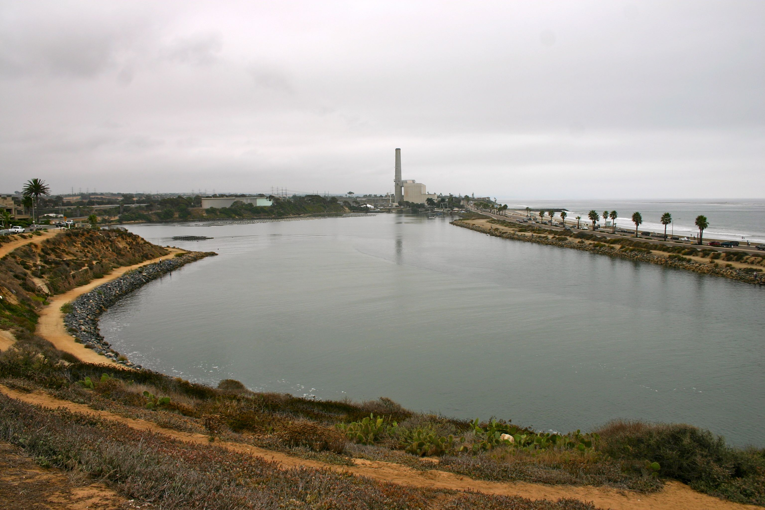 Looking to south across the Agua Hedionda Lagoon, from near its western end. The Encina Power Station can be seen in the background, and Historic Route 101 on the right. Located on the coast in Carlsbad, San Diego County, Southern California.